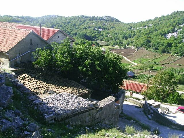 The village of Kuna Konavoska, Croatia